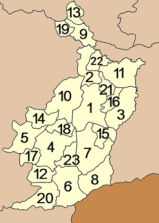 Map of Buriram province, Thailand, with the districts (Amphoe) numbered. Mueang Buri Ram (อำเภอเมืองบุรีรัมย์) Khu Mueang (อำเภอคูเมือง) Krasang (อำเภอกระสัง) Nang Rong (อำเภอนางรอง) Nong Ki (อำเภอหนองกี่) Lahan Sai (อำเภอละหานทราย) Prakhon Chai (อำเภอประโคนชัย) Ban Kruat (อำเภอบ้านกรวด) Phutthaisong (อำเภอพุทไธสง) Lam Plai Mat (อำเภอลำปลายมาศ) Satuek (อำเภอสตึก) Pakham (อำเภอปะคำ) Na Pho (อำเภอนาโพธิ์) Nong Hong (อำเภอหนองหงส์) Phlapphla Chai (อำเภอพลับพลาชัย) Huai Rat (อำเภอห้วยราช) Non Suwan (อำเภอโนนสุวรรณ) Chamni (อำเภอชำนิ) Ban Mai Chaiyaphot (อำเภอบ้านใหม่ไชยพจน์) Non Din Daeng (อำเภอโนนดินแดง) Ban Dan (sub-district) (กิ่งอำเภอบ้านด่าน) Khaen Dong (sub-district) (กิ่งอำเภอแคนดง) Chaloem Phra Kiat (อำเภอเฉลิมพระเกียรติ)